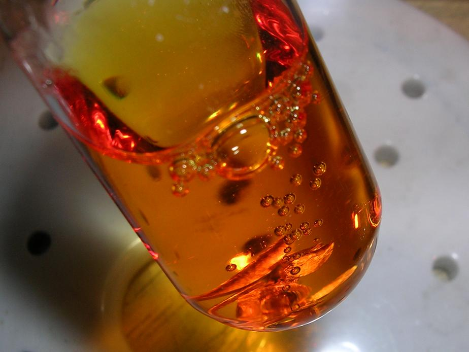 Pure platinum wire (99.95 %) dissolves easily in a mixture of one part nitric acid, three parts hydrochloric acid (aqua regia).